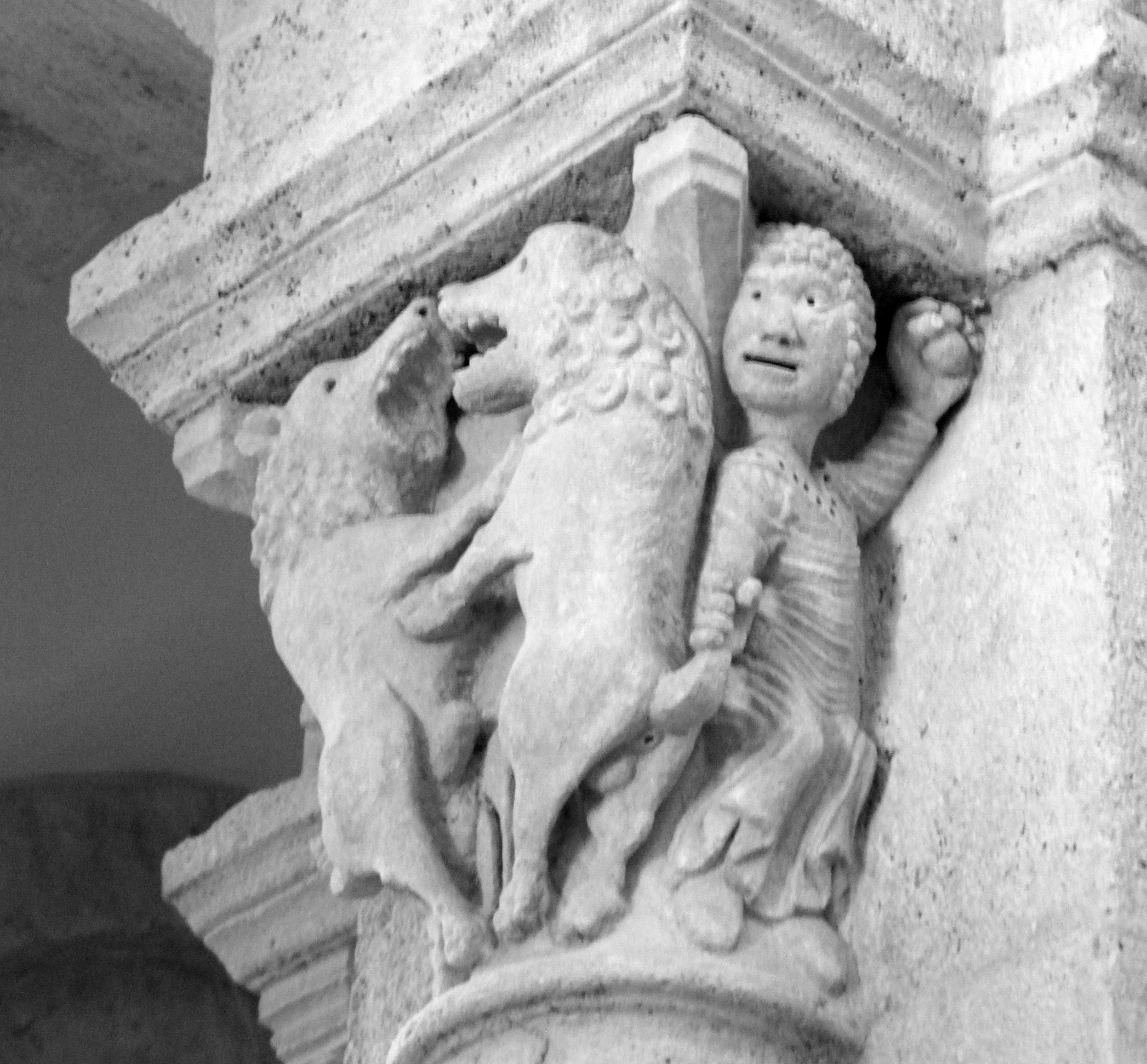 Saint-Andoche basilica, Saulieu, Burgundy, FRANCE, 12th century.